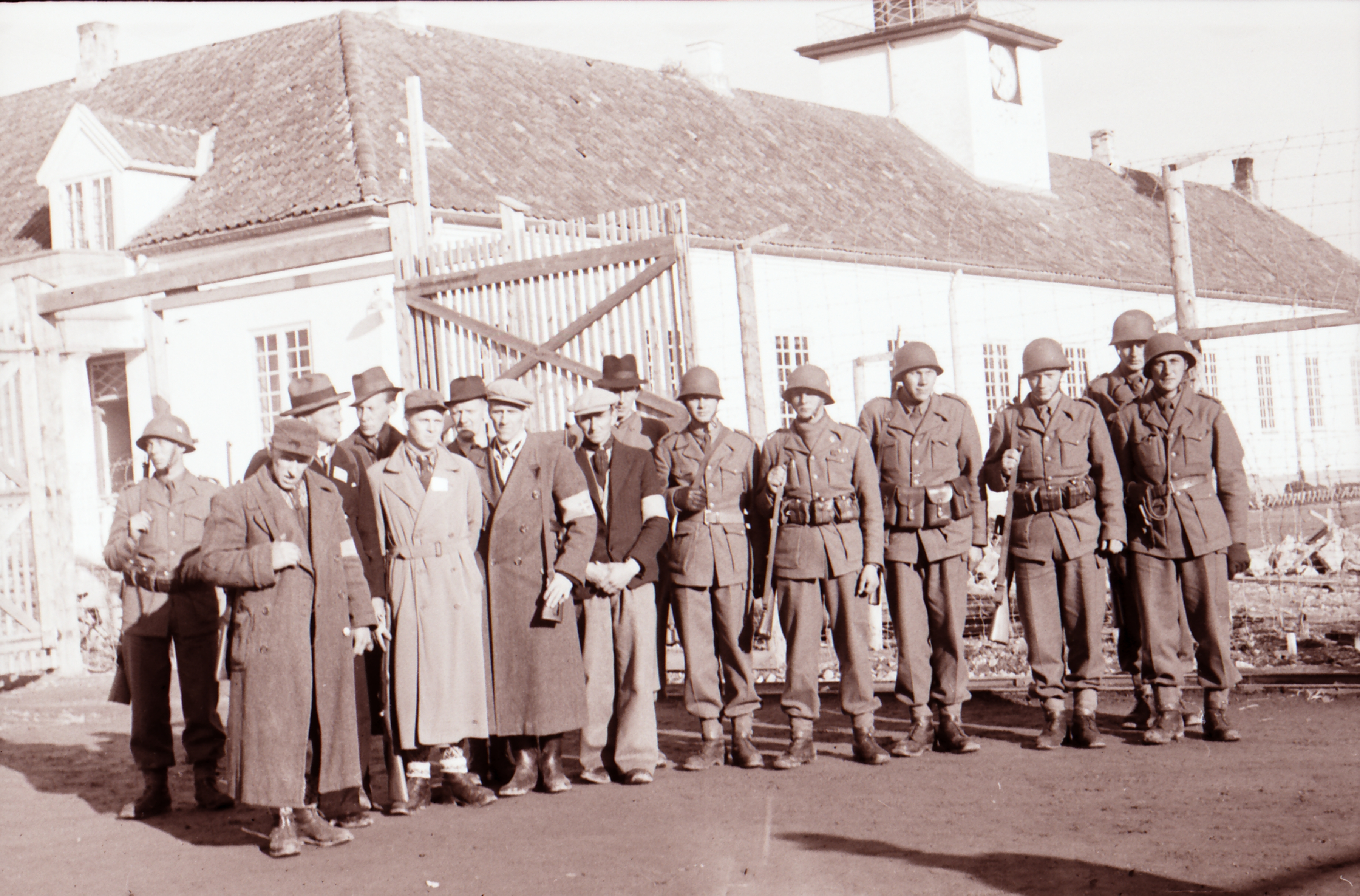 Falstad 12. mai 1945. Lokale vaktmannskaper og nyankomne polititropper (svensksoldater).Falstad on May 12th 1945. Local guards and newly arrived police troops (trained in Sweden). Dato/Date: 1945 Fotograf/Photographer: Oskar A. Johansen Sted/Place: Ekne, Nord-Trøndelag, Norge/Norway Arkivreferanse/Archive reference: FSM foto 0800530